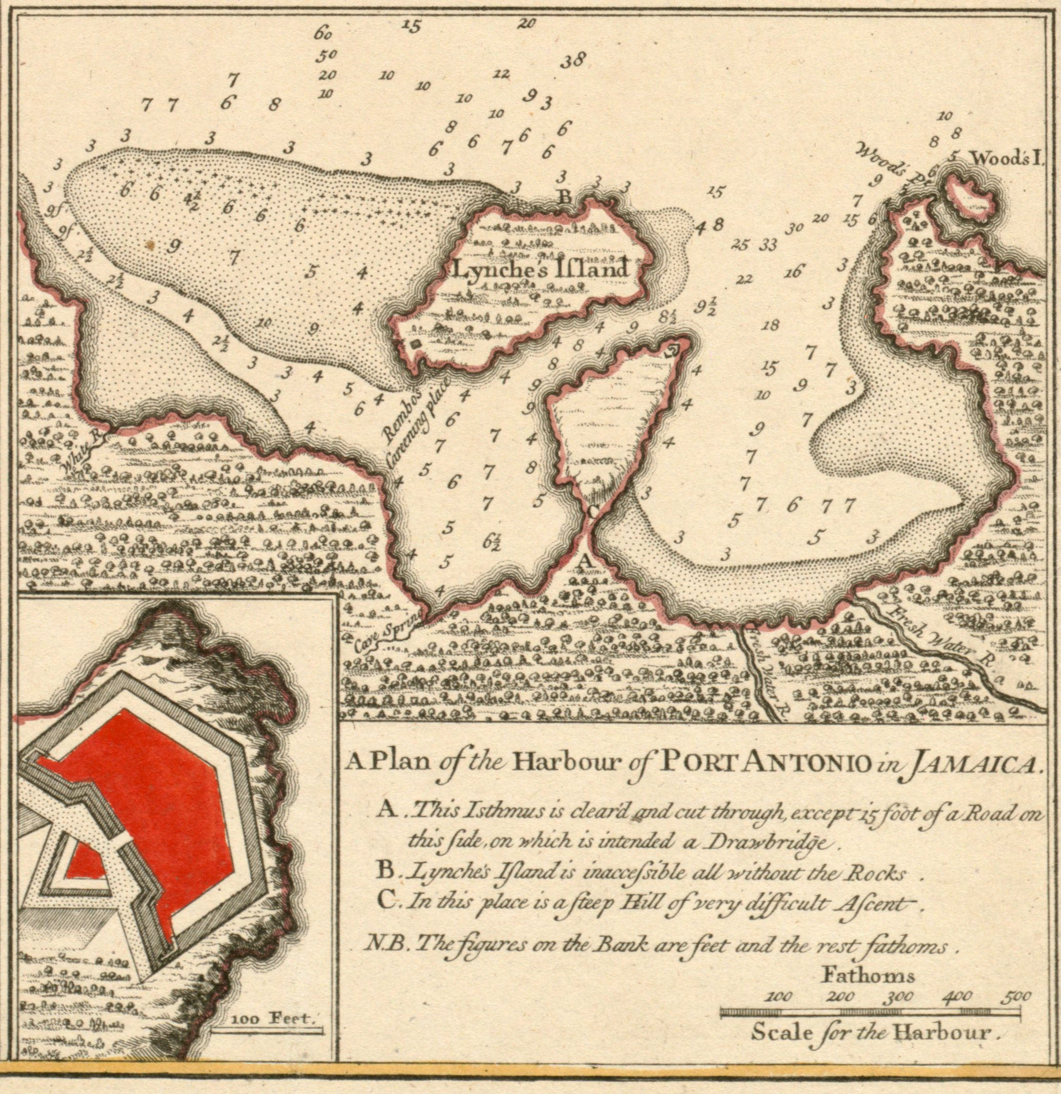 Zoom into this map at . Publisher: Cóvens et Mortier Date: 1745 Location: Annapolis Royal (N.S.), Antigua, Barbados, Bermuda Islands, Boston Harbor (Mass.), Cartagena (Colombia), Charlestown (S.C.), Curaçao (Netherlands Antilles), Havana (Cuba), Kingston Harbor (Jamaica), Martinique, New York Harbor (N.Y. and N.J.), Perth Amboy Harbor (N.J.), Placentia (N.L.), Port Antonio (Jamaica), Portobelo Bay (Panama), Providence Harbor (R.I.), Saint Augustine Harbor (Fla.), Santiago de Cuba Bay (Cuba) Dimension: 54x66cm Scale: Scales differ Call Number: G3300 1745 .C6